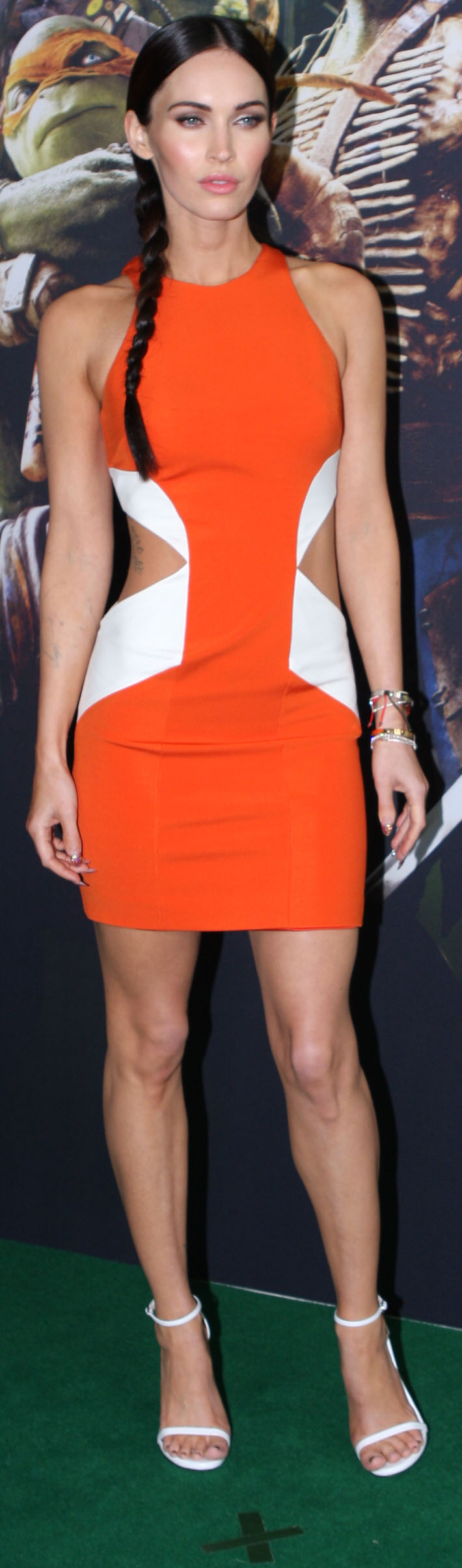 Teenage Mutant Ninja Turtles Special Event Screening - Megan Fox, Will Arnett